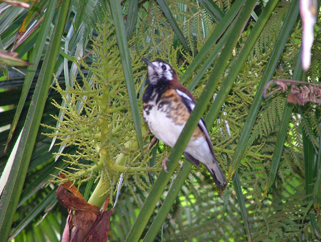 Zoothera dohertyi